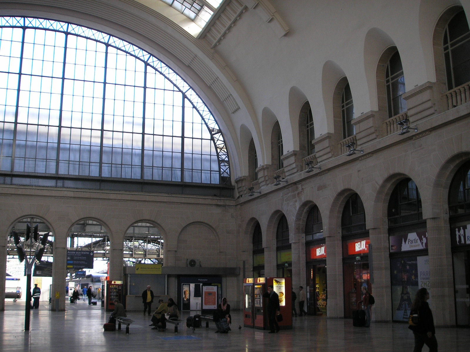 Main lobby with glass skylight in the Gare de l'Est in Paris